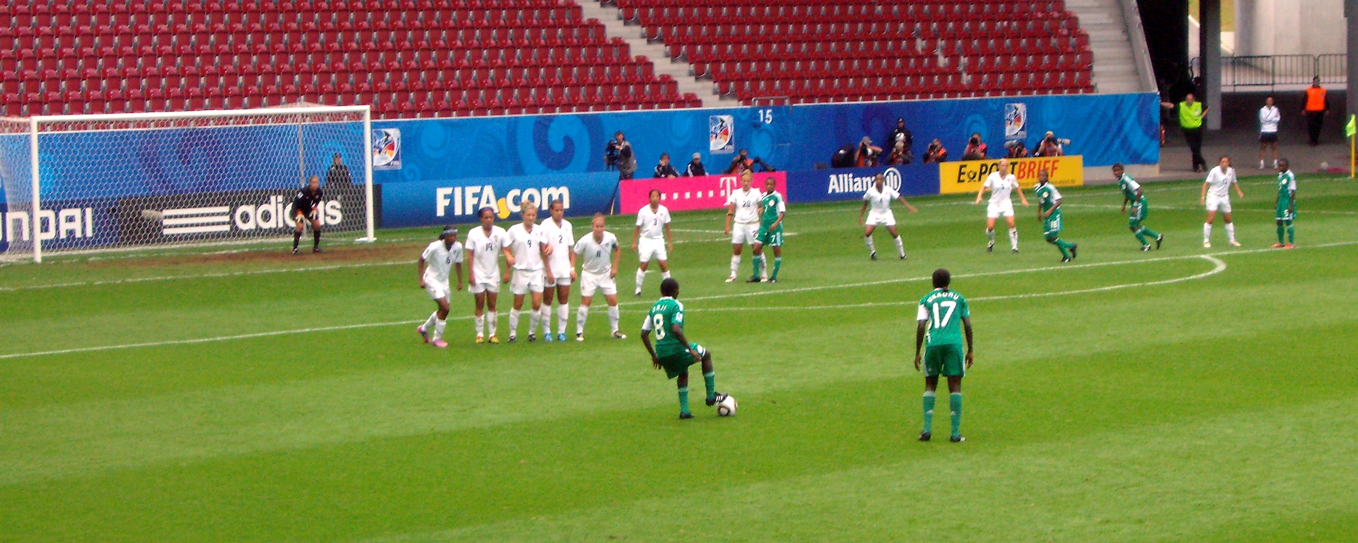 USA-Nigeria at 2010 FIFA U-20 Women's World Cup in Impuls Arena as “FIFA Women's World Cup Stadium Augsburg”: Helen Ukaonu (17) at free kick, making 1:1-goal for Nigeria. Other Players: See 2010 FIFA U-20 Women's World Cup squads.